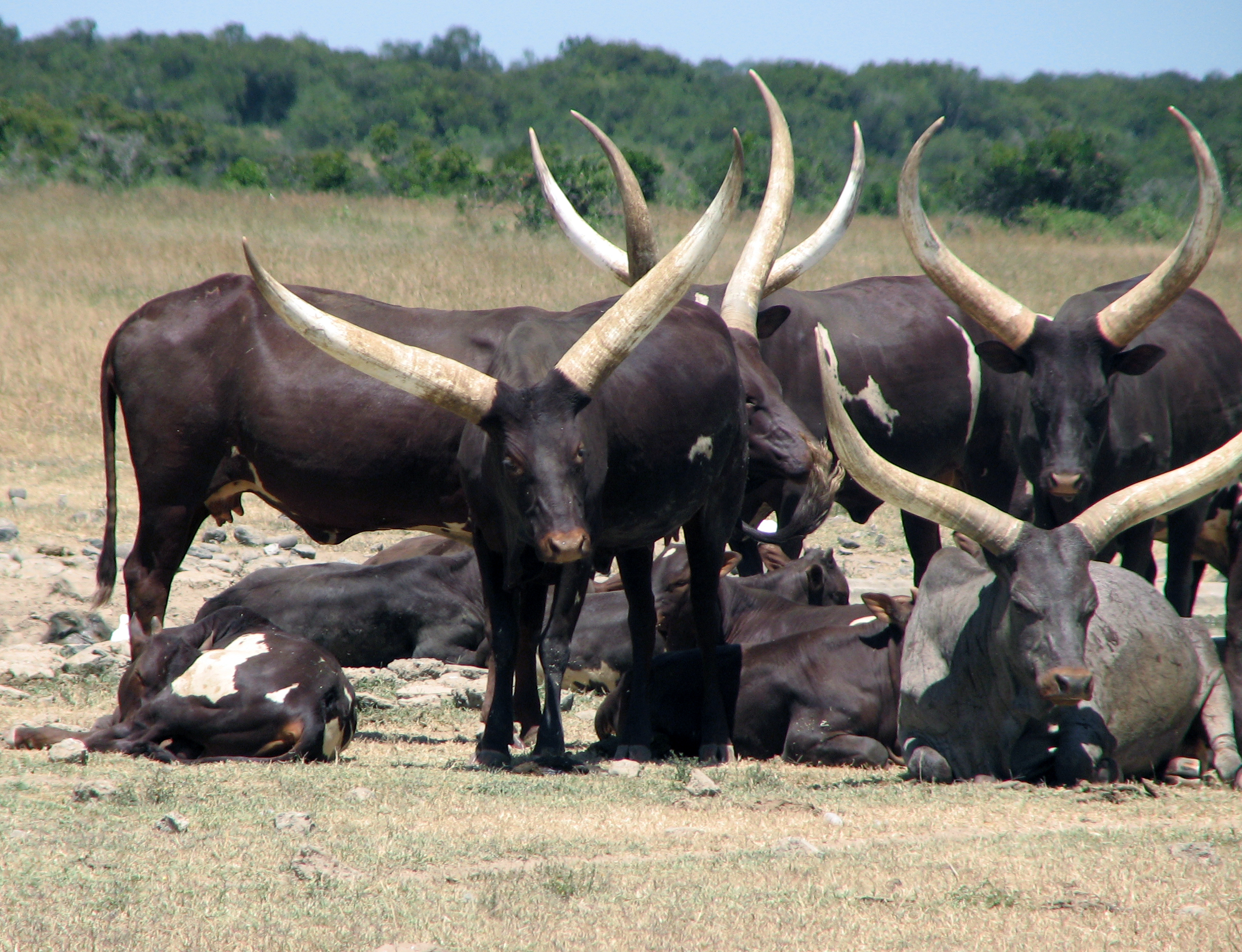 Taken on Safari in Africa